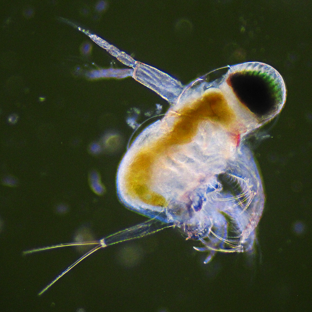 Collected at Manitouwabing Lake, Ontario, July 2013, photographed in transmitted light microscopy using Rheinberg illumination